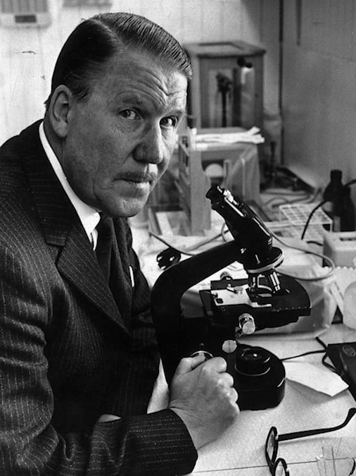 Swedish veterinary surgeon Elis Sandberg (1910-1989)